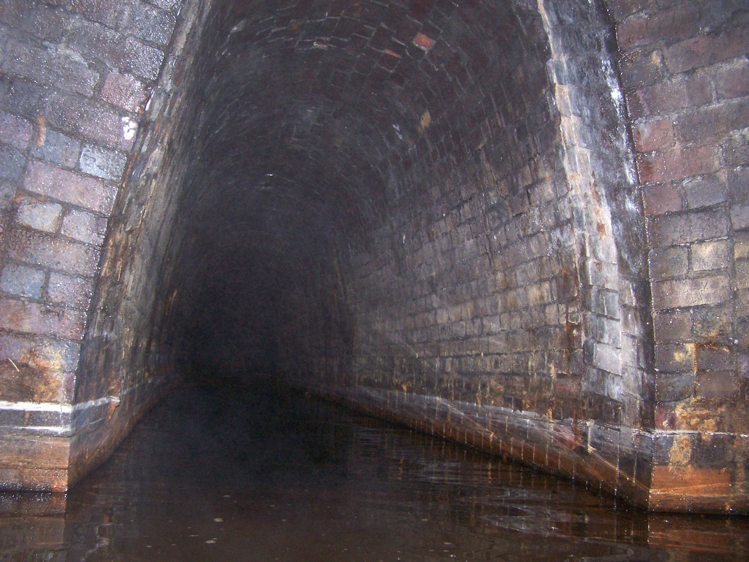 Author: Tina Cordon, Source: Own Picture Tina Cordon 02:39, 18 October 2006 (UTC)